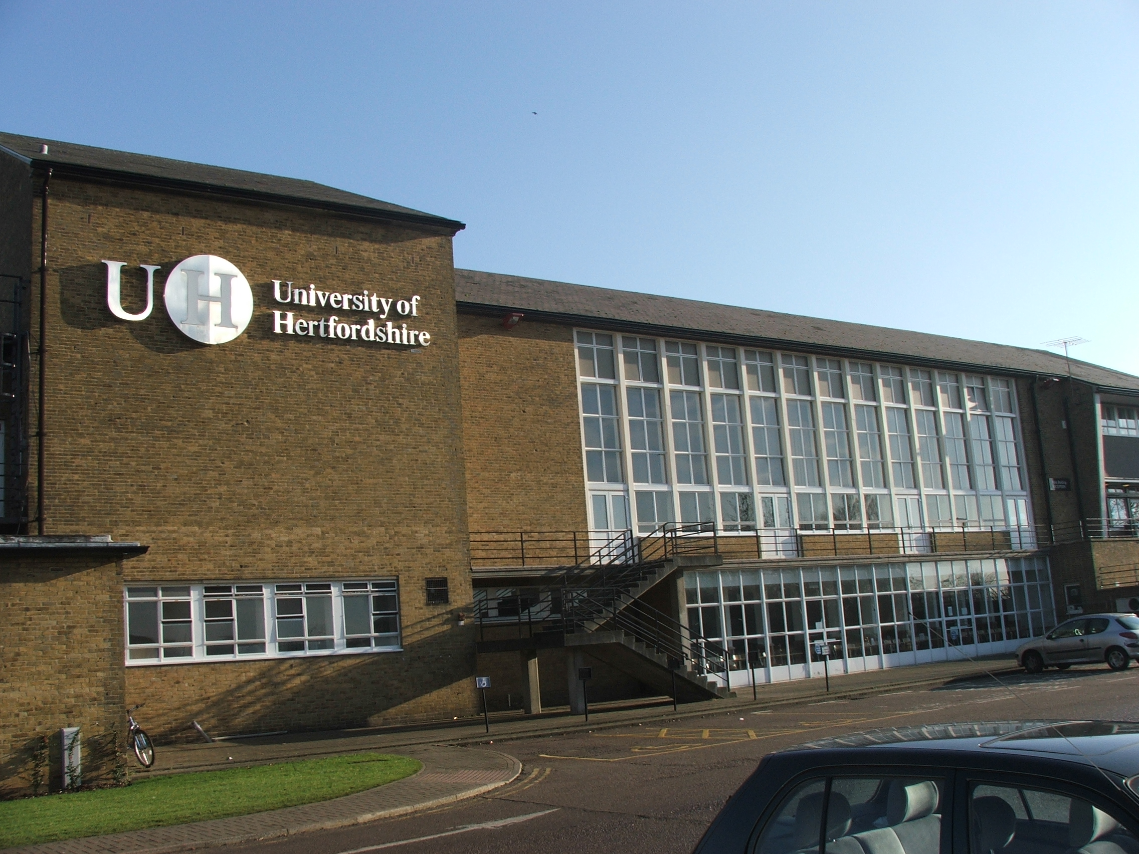 Picture of the main building of University of Hertfordshire's (old and first) College Lane campus. Taken December, 10th, 2005 by Johannes Knabe.